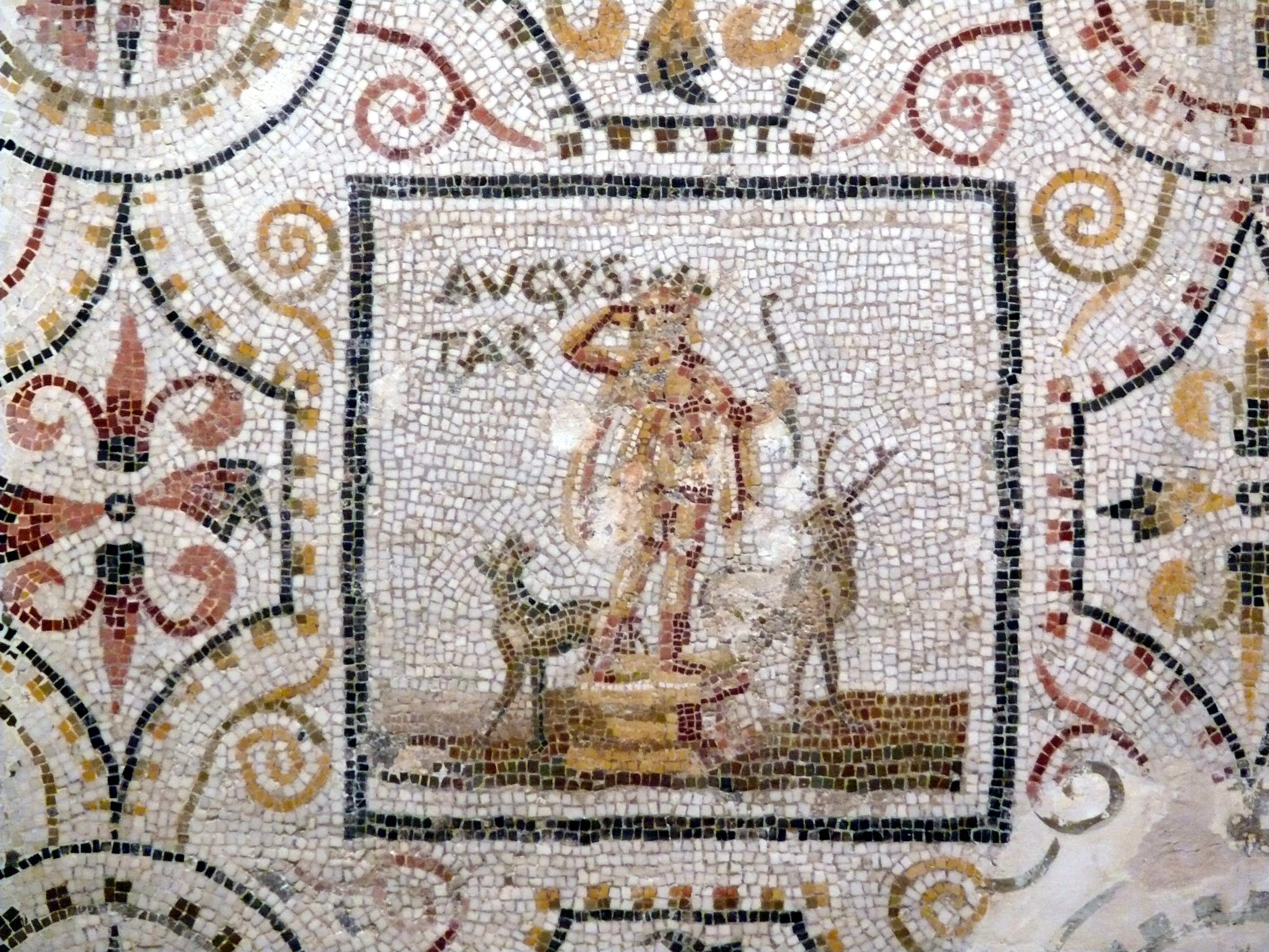 August, fragment of a mosaic with the months of the year, starting with the Roman first month March. First half third century El Jem Archeological Museum of Sousse